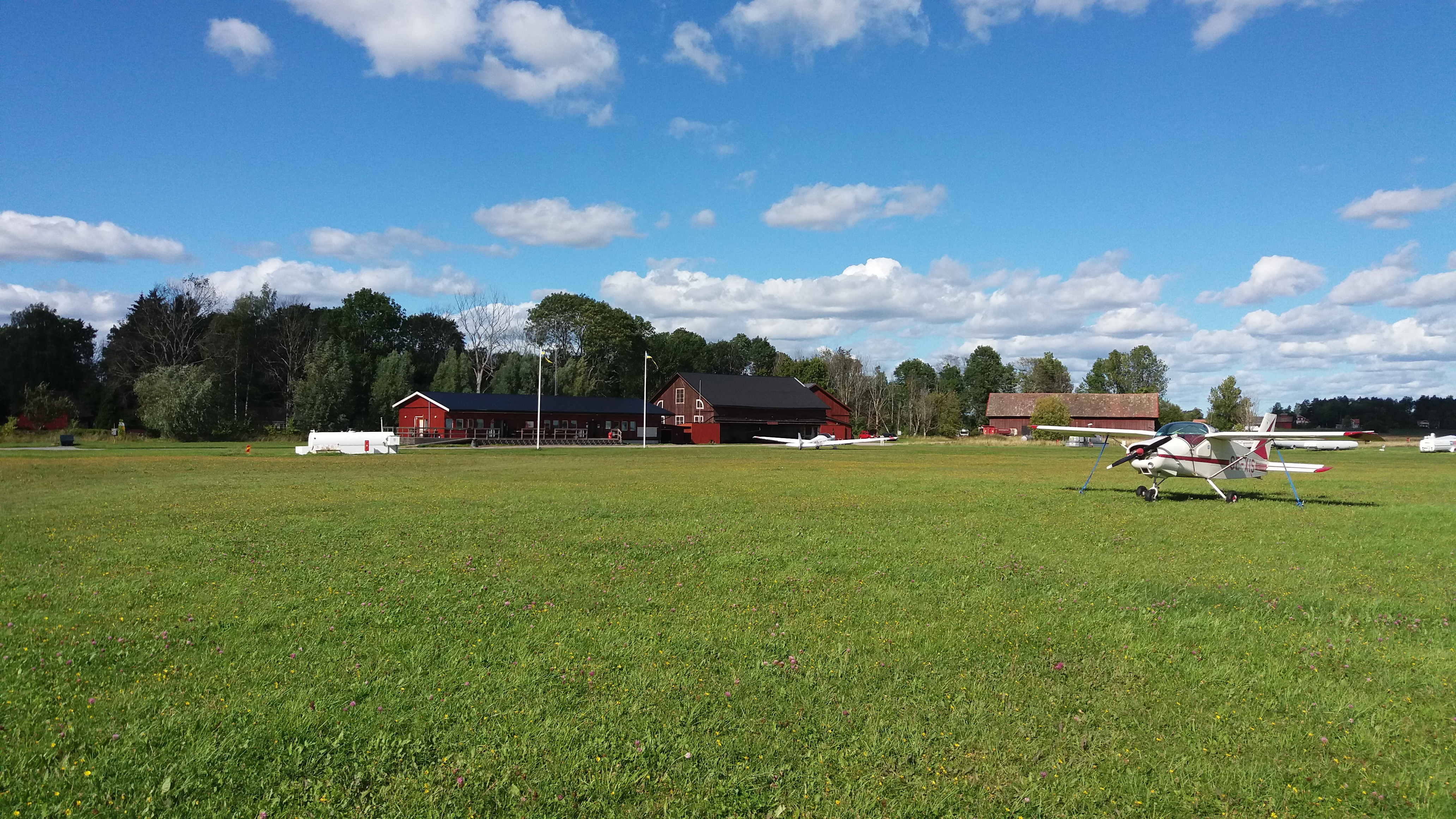 Uppsala-Sundbro airport